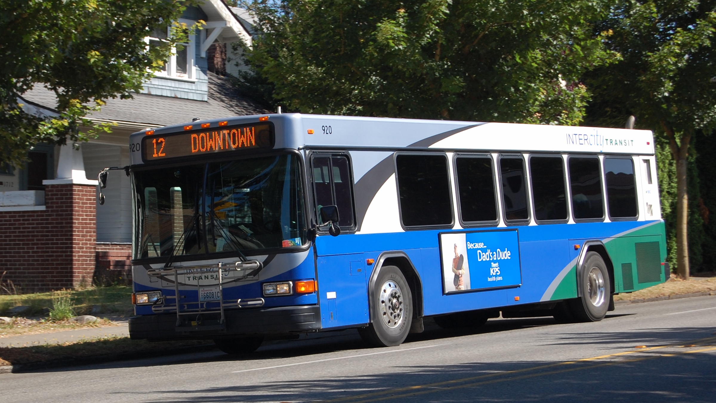 Intercity Transit Bus 902 on Route 12 to downtown Olympia.